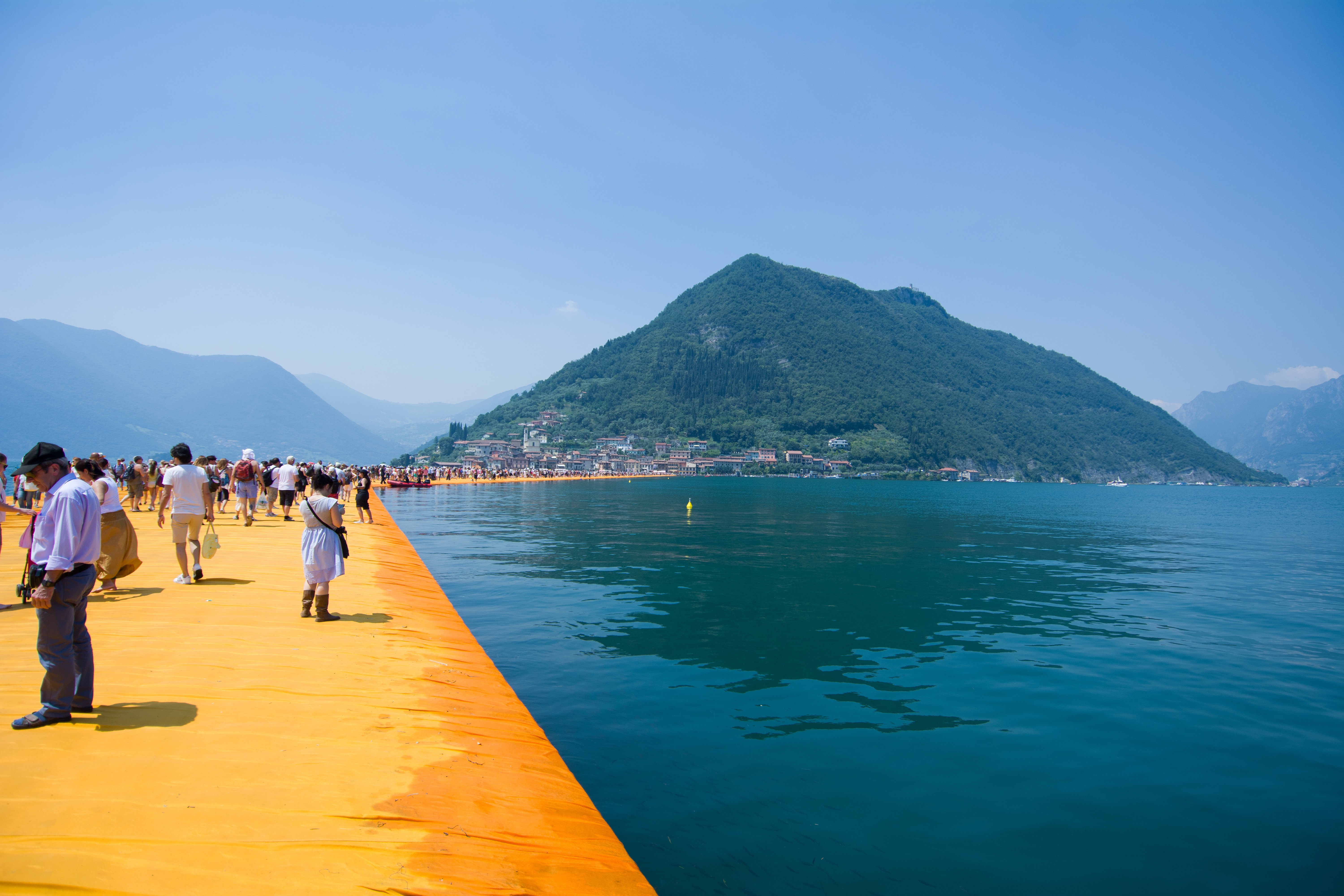 Part of an art installation at Lake Iseo, north of Italy, created by Christo and Jeanne Claude.